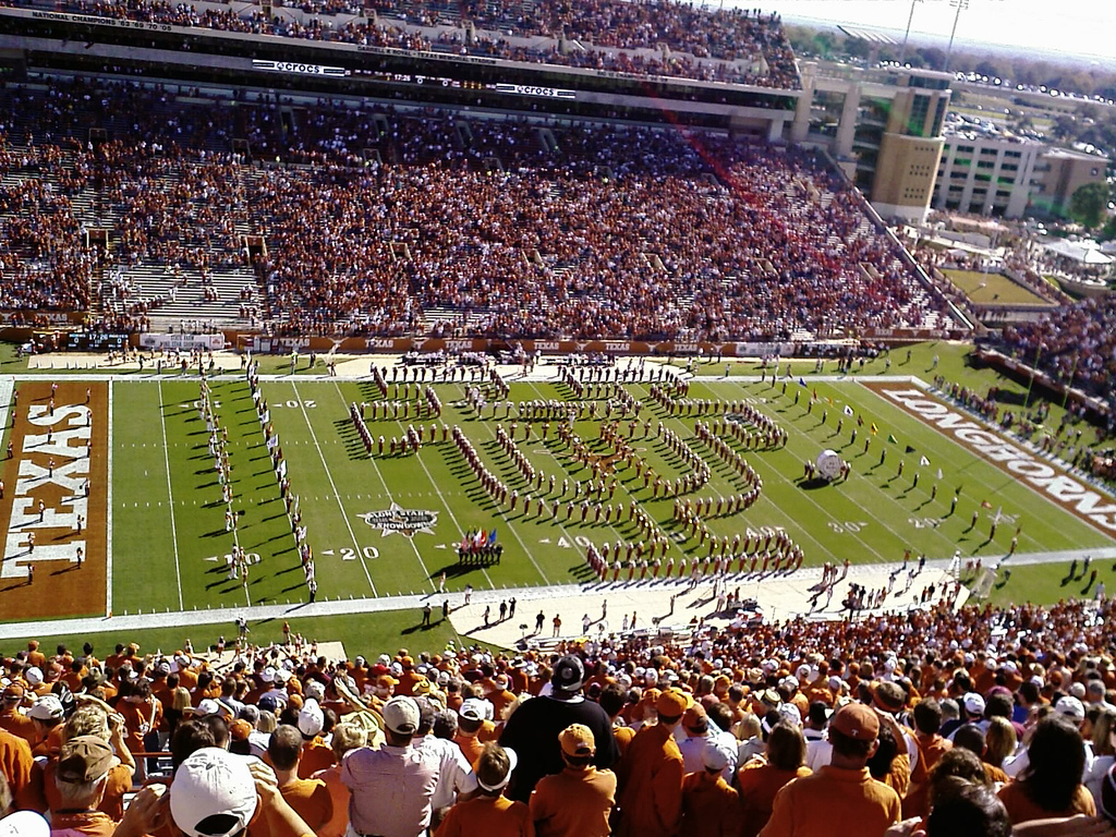 Longhorn Band Halftime -UT vs Texas A&M